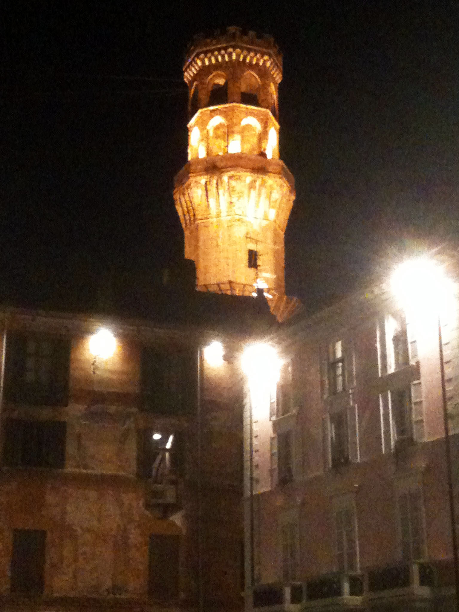 Torre_dell'_angelo Vercelli